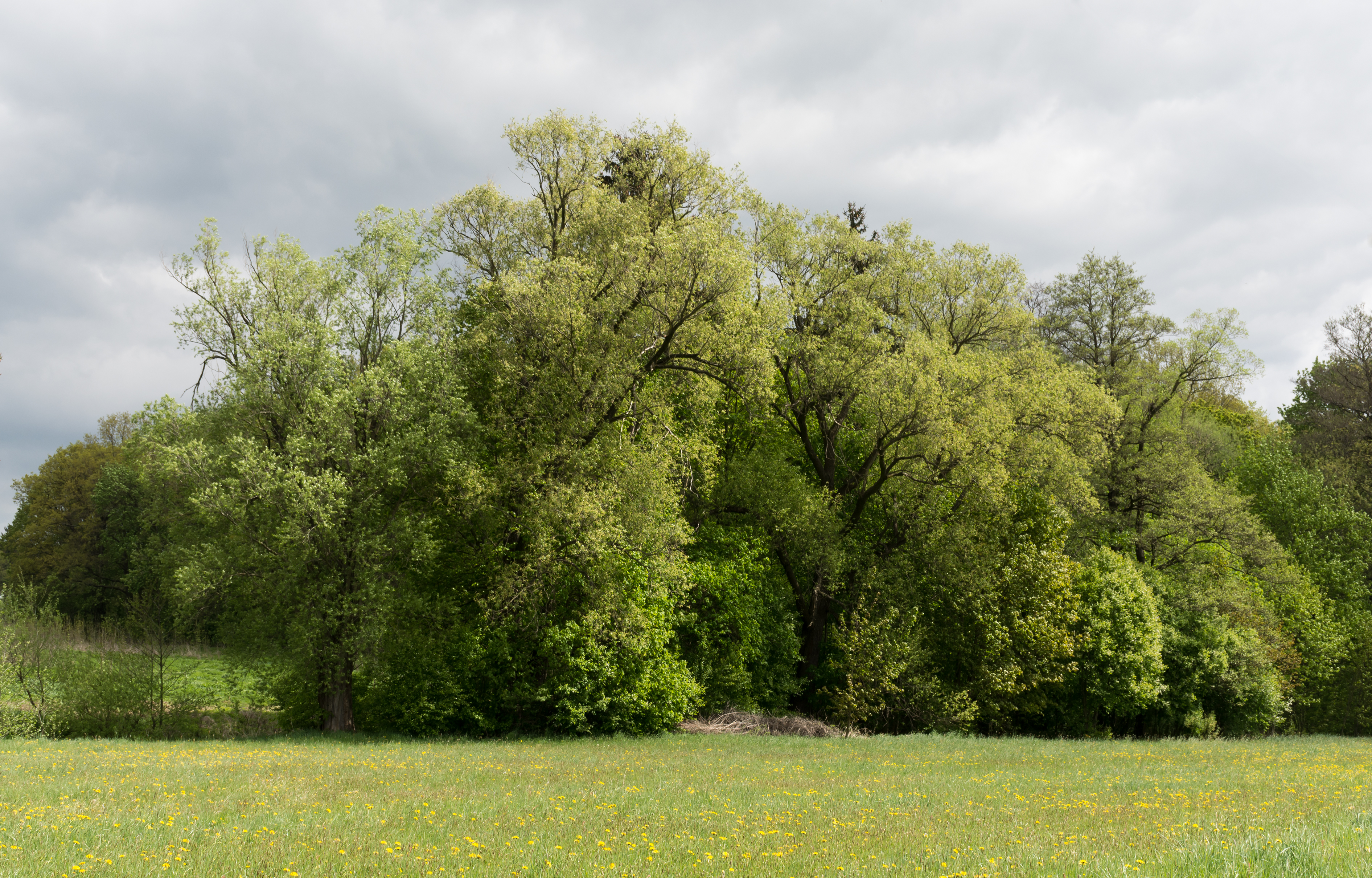 Park in Wolany